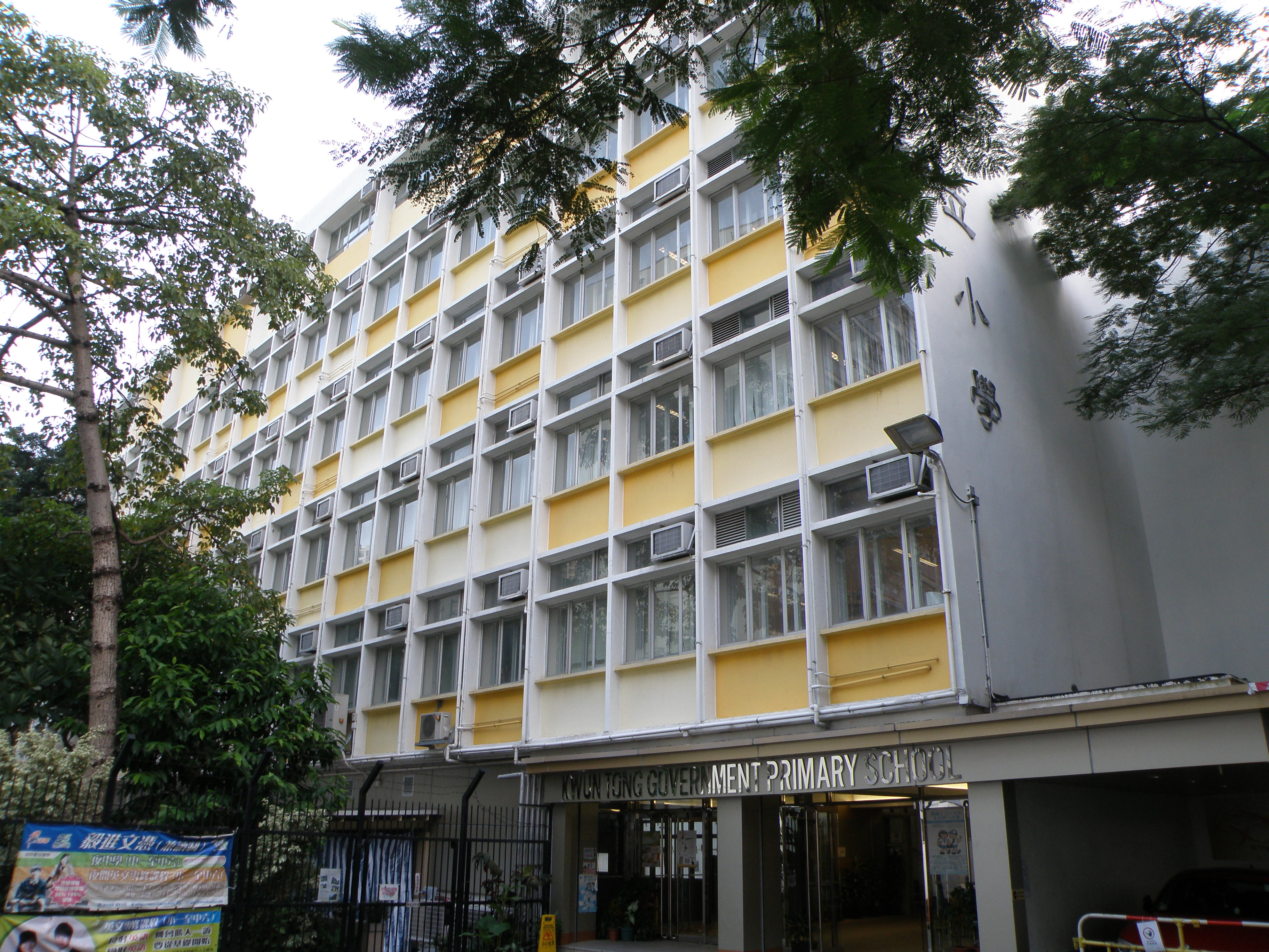 Kwun Tong Government Primary School in Ngau Tau Kok, Hong Kong.